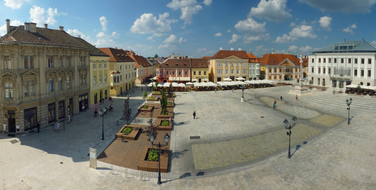 Panorama of Széchenyi tér, Győr